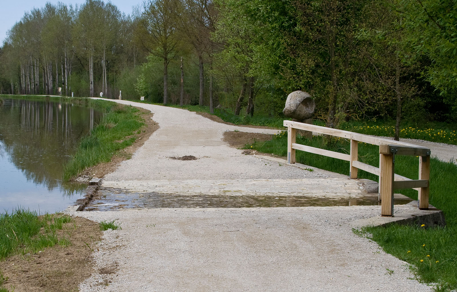 Picture of a bleeder on the Ludwigs Canal at lock 25 near Mühlhausen.